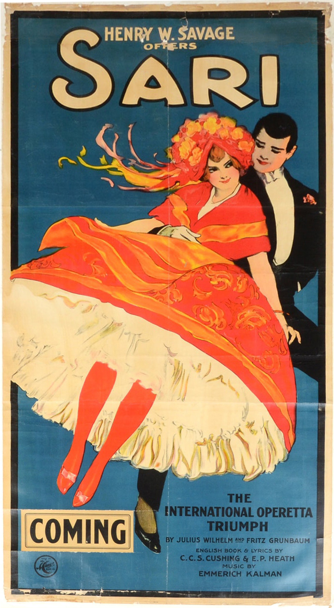 Poster for the Broadway production of Sari, the English-language adaptation of Der Zigeunerprimas